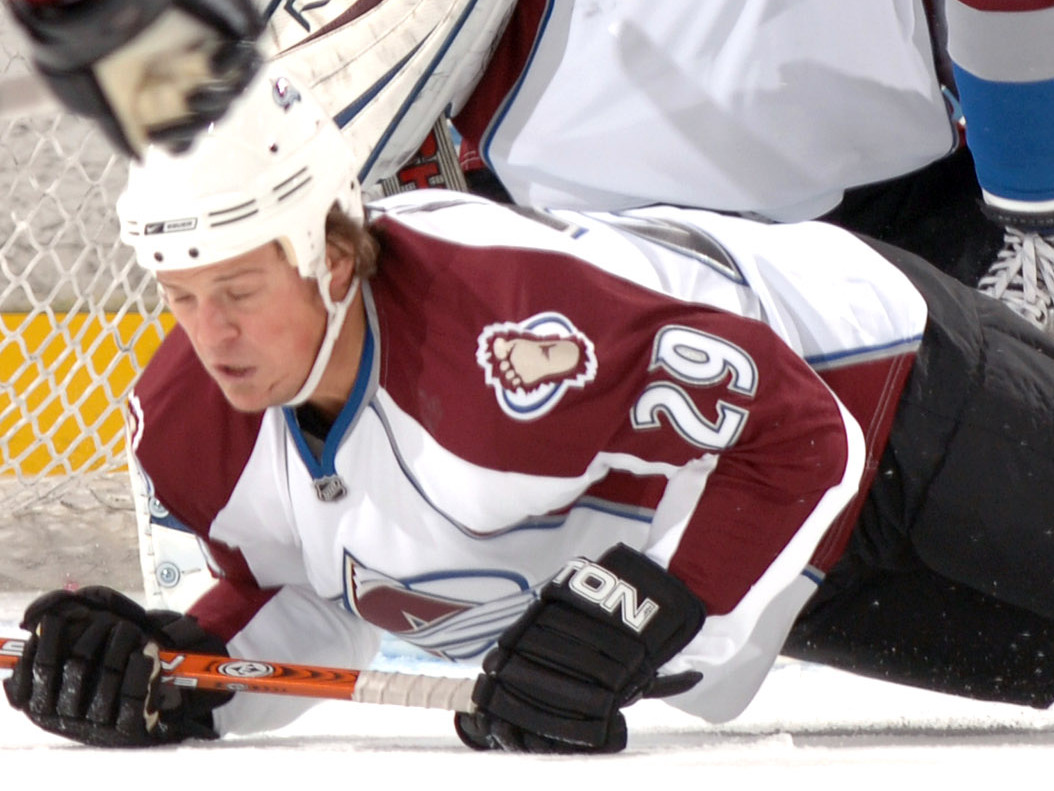 defenseman Jeff Jillson blocking a shot during the Burgundy and White intra-squad scrimmage Sept. 16 at the Cadet Ice Arena at the U.S. Air Force Academy in Colorado Springs, Colo. It was the first time an NHL team ever played at the Academy. (U.S. Air Force photo/Dave Armer) Also seen in the picture are Tyler Weiman and Scott Hannan.